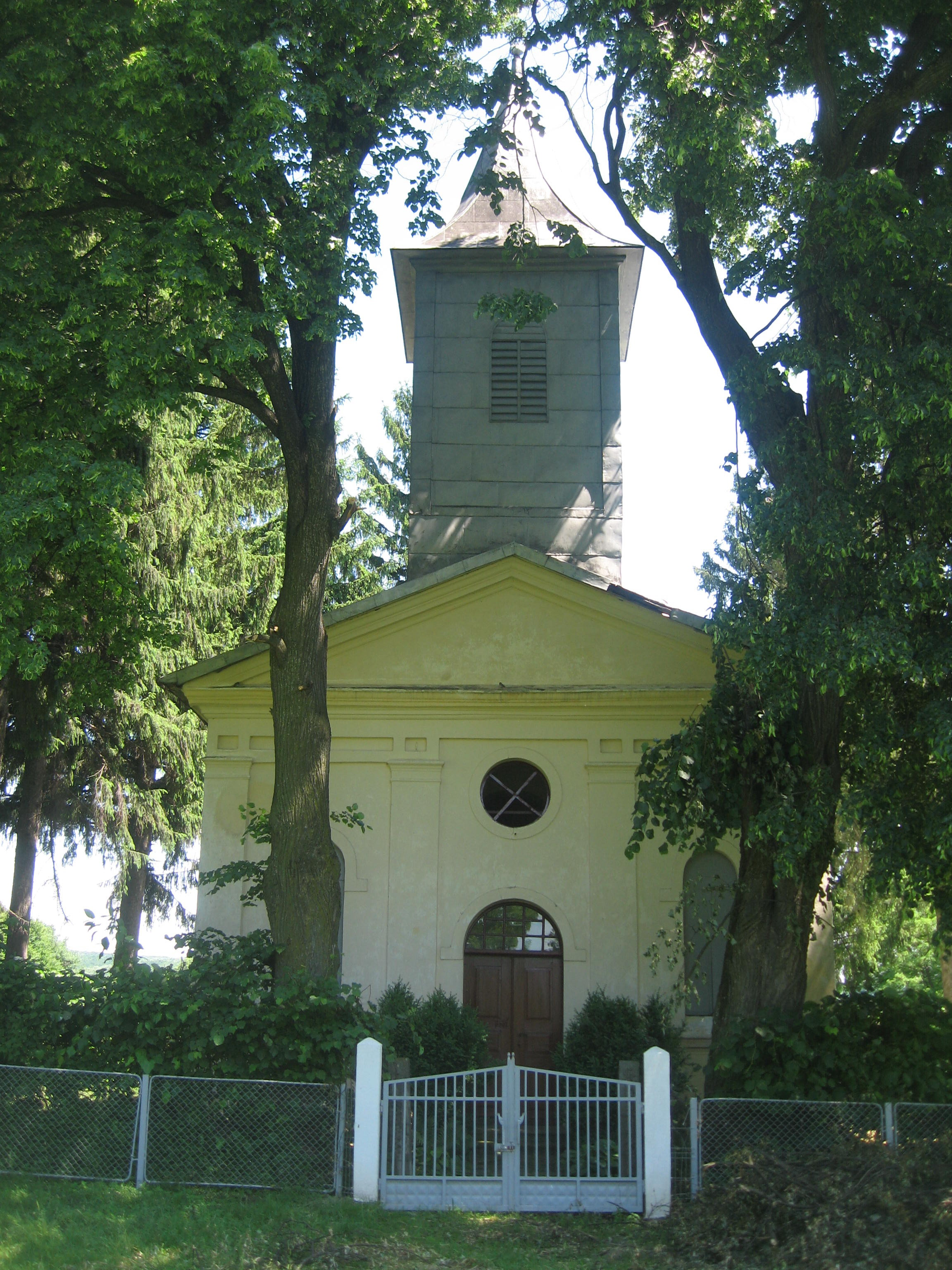 The Roman-Catholic Church in Mitocu Dragomirnei, Suceava County, Romania